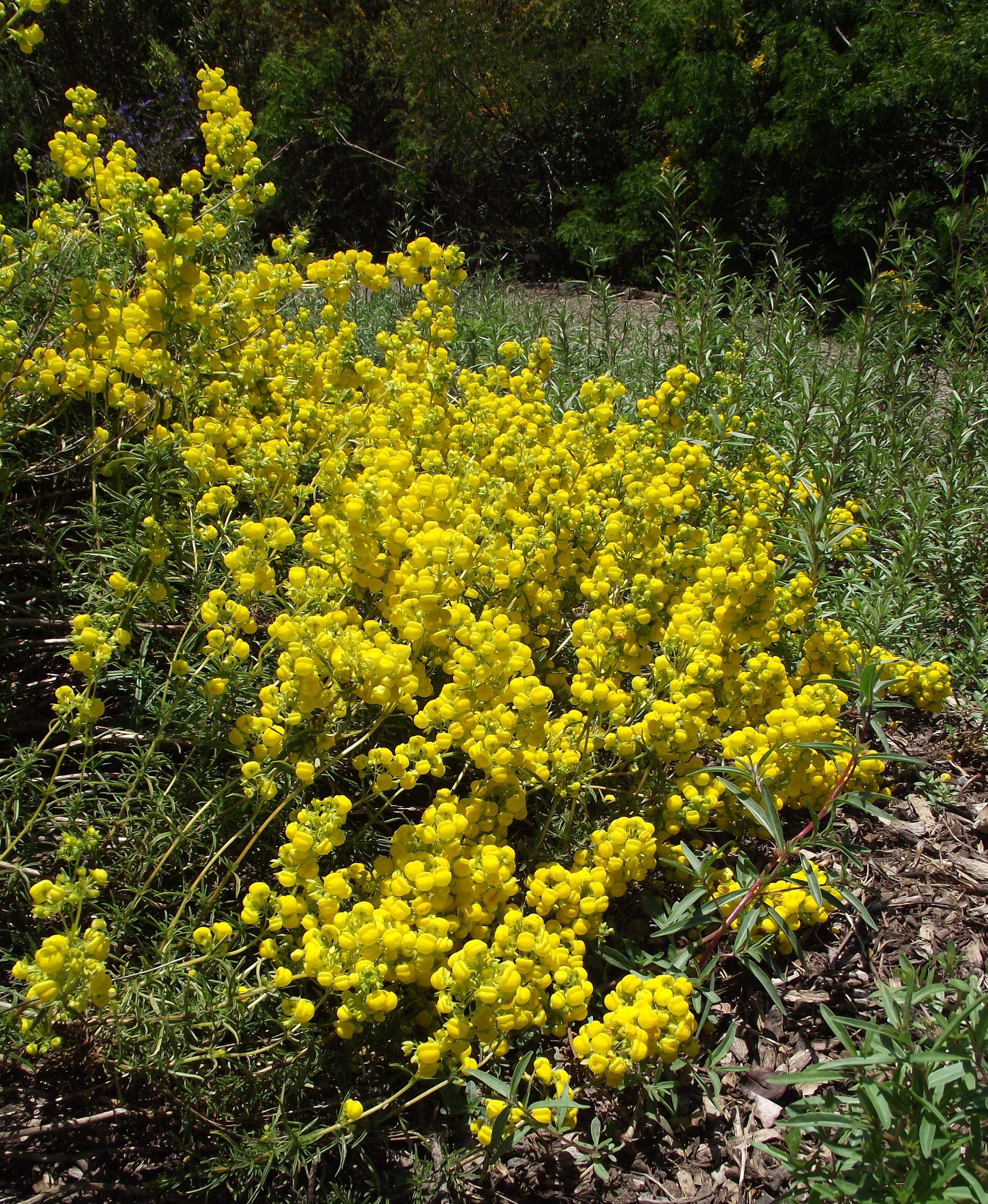 Calceolaria hypericina in the UC Botanical Garden, Berkeley, California, USA. Identified by sign.